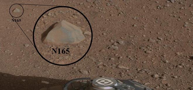 08.19.2012 'Coronation' Rock on Mars This mosaic image with a close-up inset, taken prior to the test, shows the rock chosen as the first target for NASA's Curiosity rover to zap with its Chemistry and Camera (ChemCam) instrument. ChemCam fired its laser at the fist-sized rock, called "Coronation" (previously “N165”), with the purpose of analyzing the glowing, ionized gas, called plasma, that the laser excites. Image Credit: NASA/JPL-Caltech/MSSS/LANL